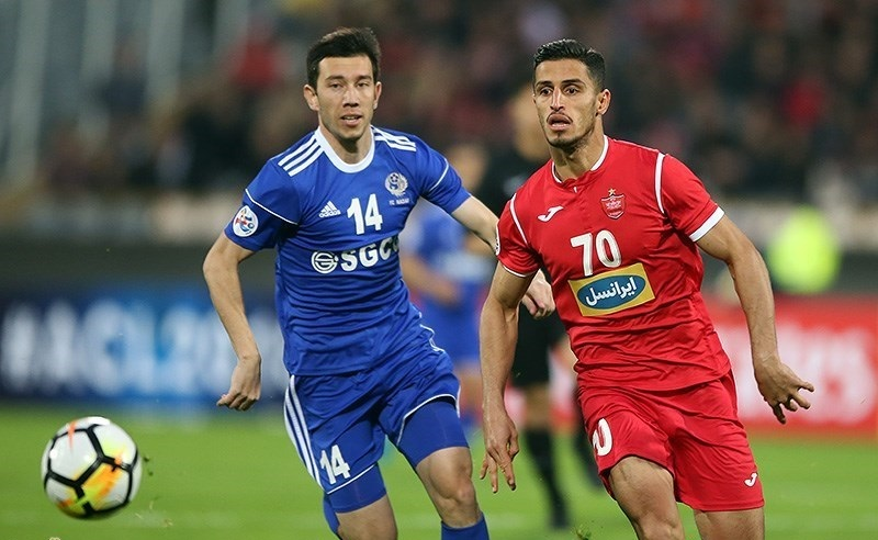 Ali Alipour in Persepolis FC and FC Nasaf Match (ACL 2018)